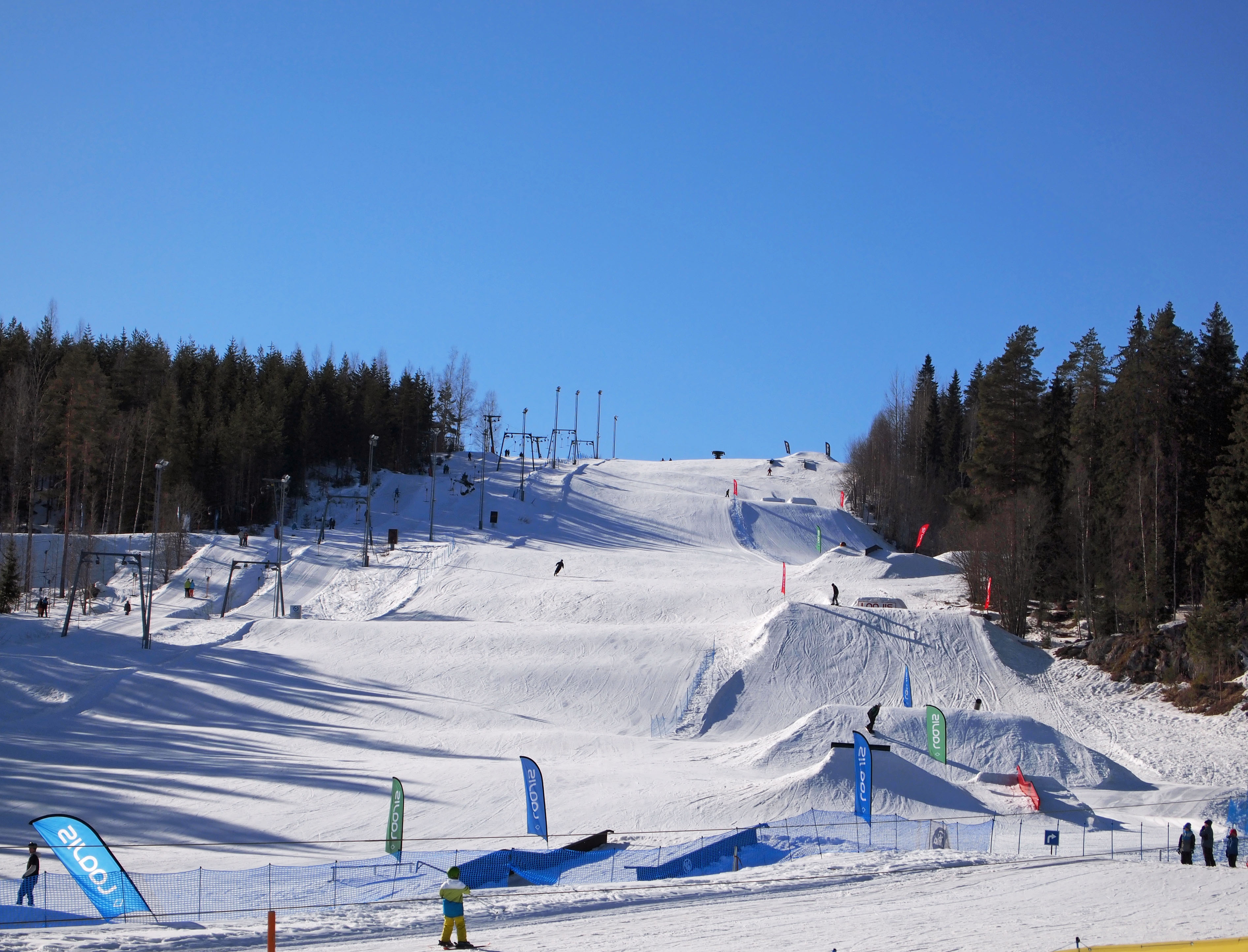 Skiing center Laajavuori in Jyväskylä, Finland.